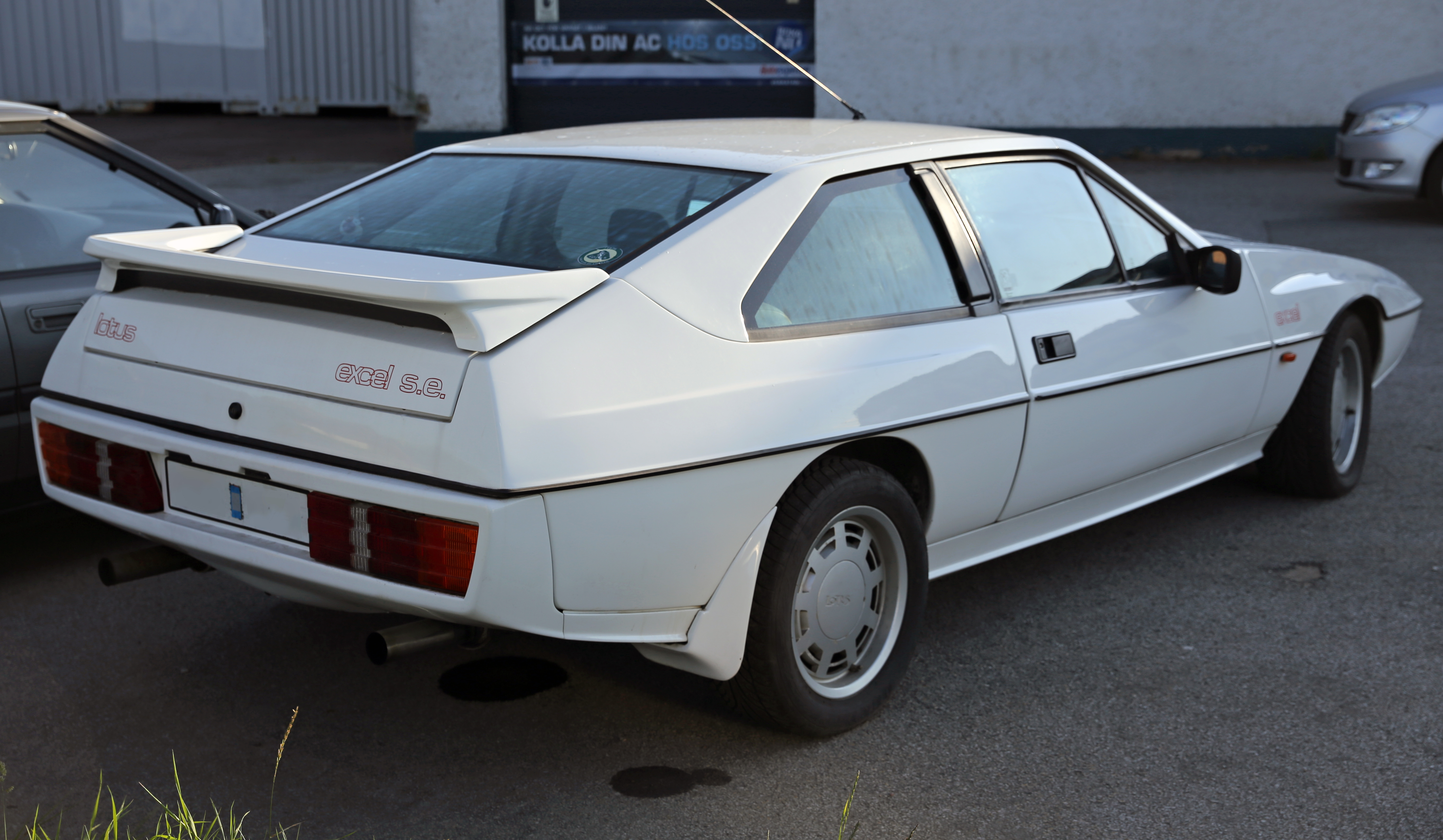 1986 Lotus Excel S.E. - although according to the registration authorities it only has 160hp rather than the 180 it's supposed to have gotten. Maybe this was due to Sweden's quirky emissions rules at the time, Swedish market cars even carry a telltale "S" in their chassis number.